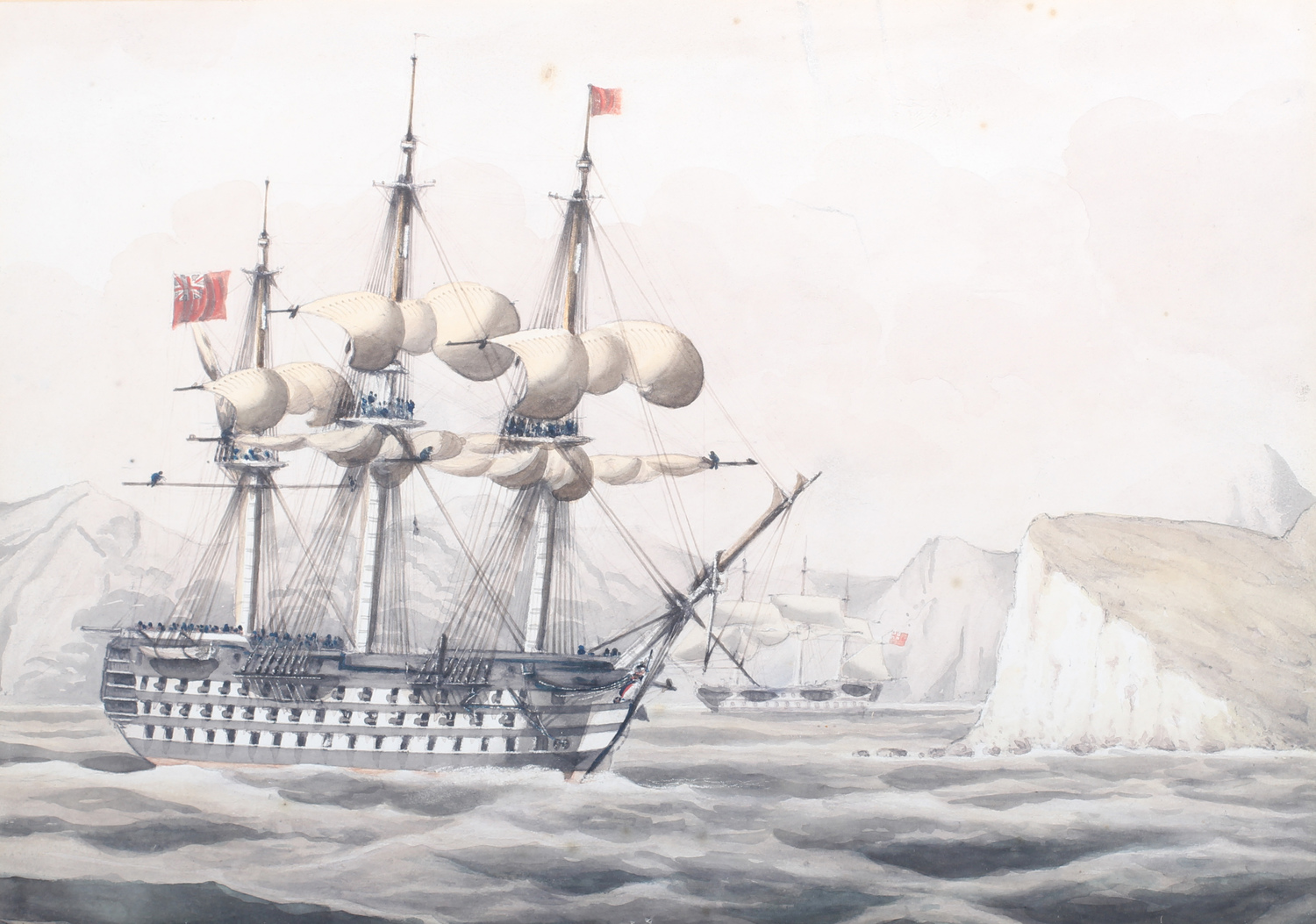 HMS Britannia and HMS Malelina Entering Milos Harbour, 2nd January 1834 by John H. Wilson, pencil and watercolor, 9 X 13 in. Note: Malelina is most likely to be HMS Malabar (1818). See Talk page